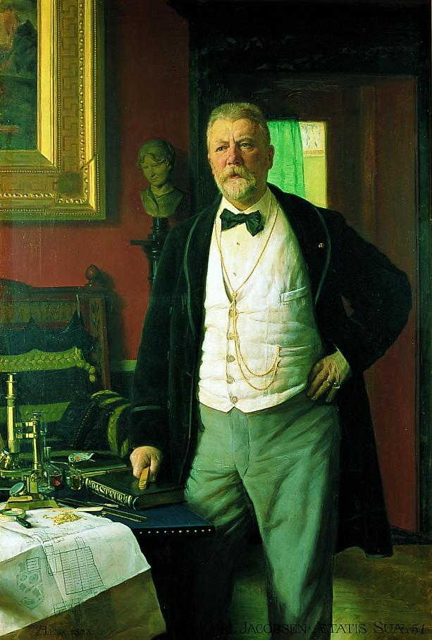 Portrait of Carl Jacobsen, Carlsberg